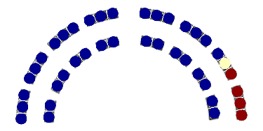 Breakdown of political party representation in the Senate of Virginia during the 1916-1917 Virginia General Assembly. Blue: Democrat (35) Red: Republican (4) Ivory: Independent (1)